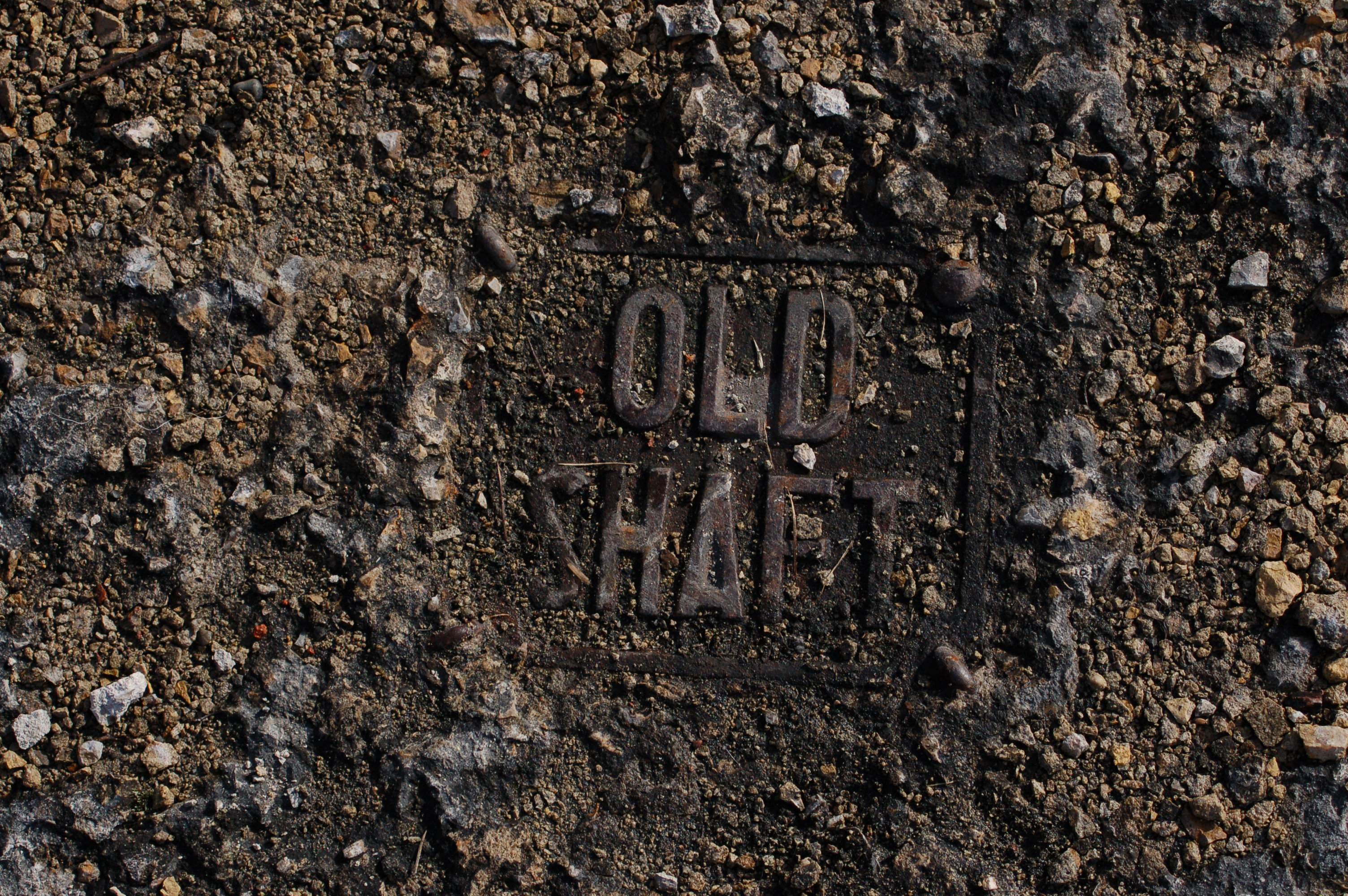 Concete cap over the top of the backfilled Lodge Shaft, site of former Marley Hill Colliery